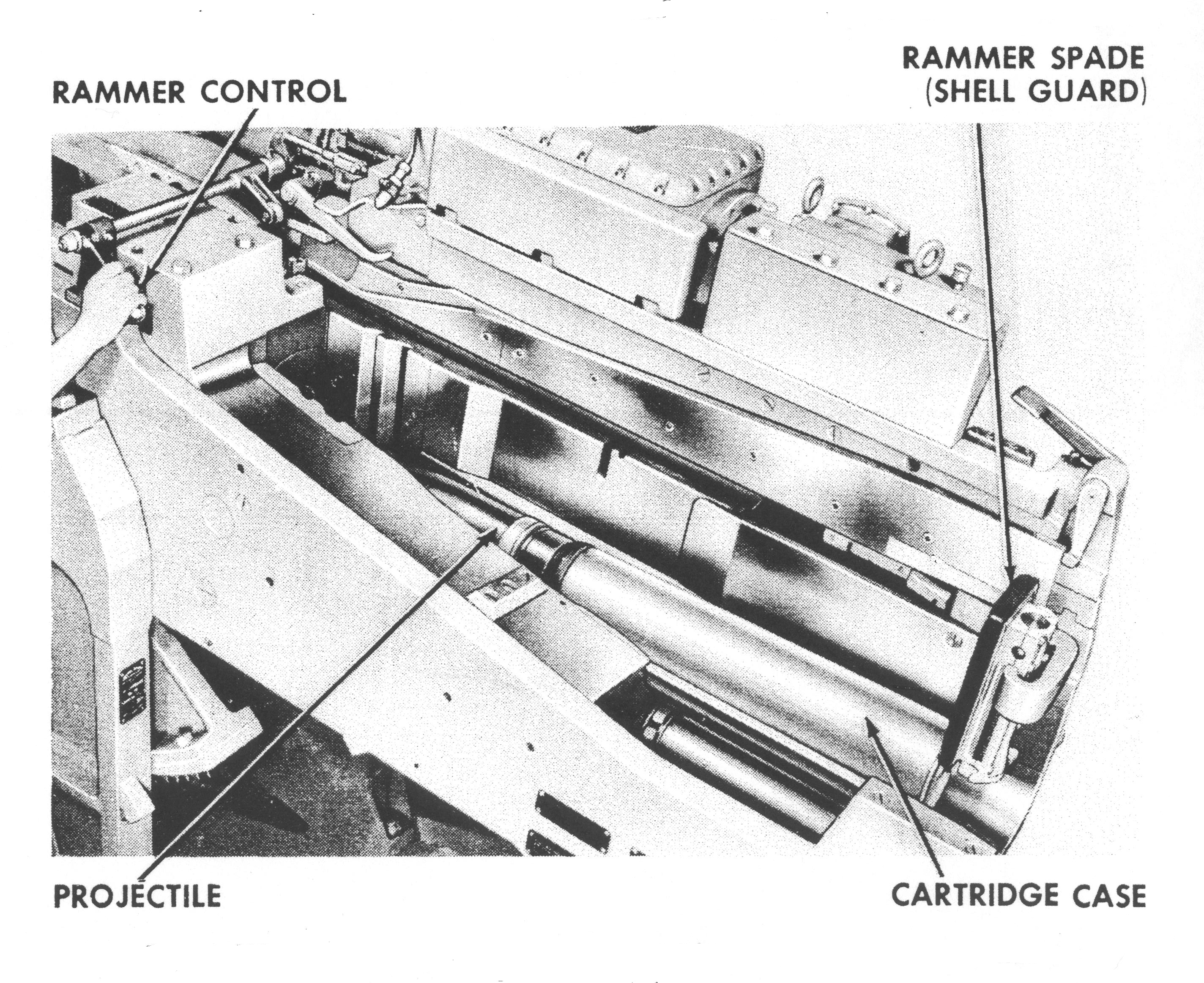 5"/38cal Rammer Tray. Cropped portion of image scanned from source.